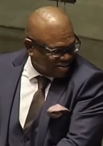 Geoffrey Makhubo, ANC Johannesburg regional chair, upon his election as mayor of the city on 4 December 2019.